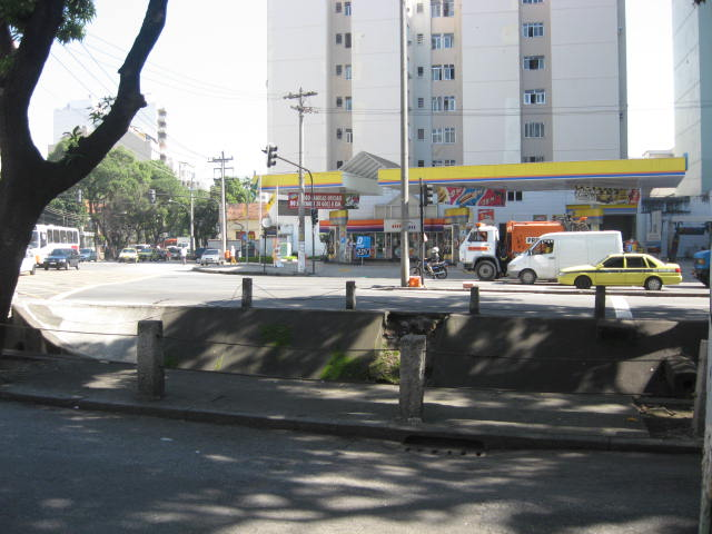 Maracanã River, Rio de Janeiro, Brazil